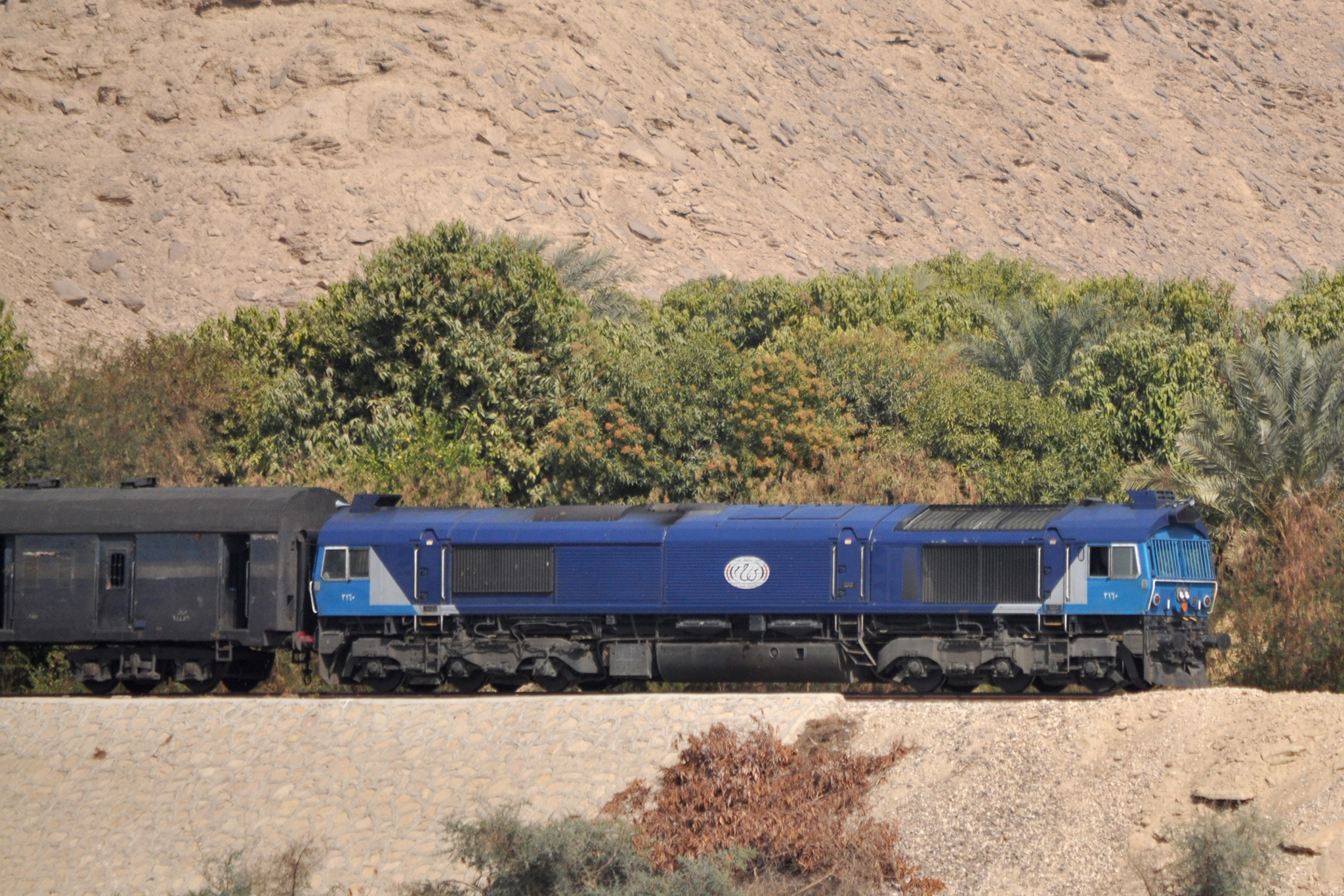 Class 66 "2160" of Egypt Railways (ENR) near Assuan